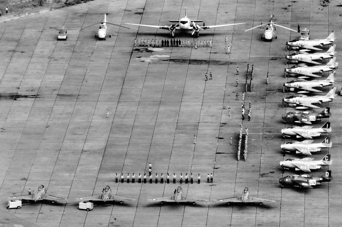 From January to May 1963, Imperial Iranian Air Force sent four F-86Fs (3-133,3-140,3-146 & 3-150) and eight of best F-86 pilots of Vahdati Airbase together with 33 ground crew to Republic of the Congo as United Nations Peacekeeping Forces under it command. The unit was apparently named 103rd Tactical Fighter Squadron for the duration. In this picture, there are five Swedish Air Force Saab 29 Tunnan and five Philippines Air Force Sabres in a lineup in right side of photo. Photo was taken at Kamina Airport